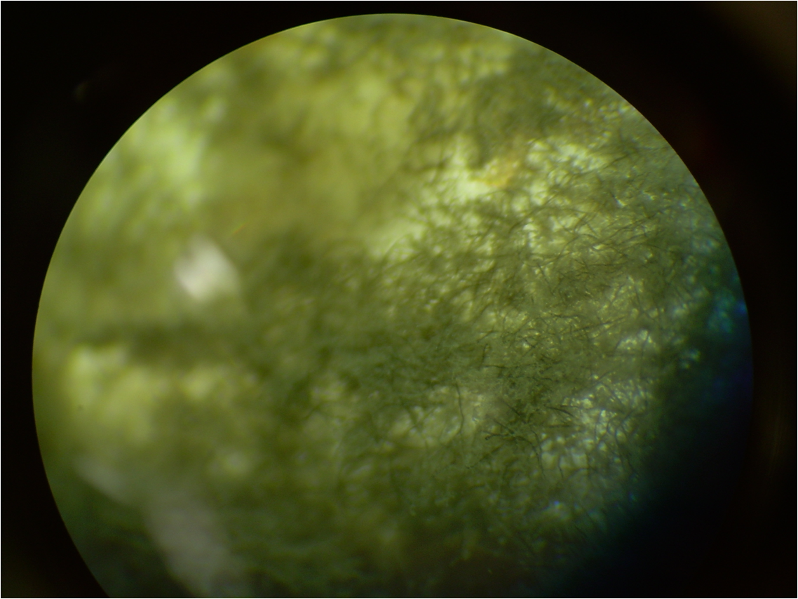 Trichoderma viride growing on an onion, magnified 4.5X. Identified using Barnett, H. L. & Hunter, B. B. (1998) Illustrated Genera of Imperfect Fungi. APS Press: St. Paul, MN; pp. 132–3 ISBN 0-89054-192-2. Recovered from white onion (Allium cepa L.). Host status confirmed using Farr, D. F., Bills, G. F., Chamuris, G. P., & Rossman, A. Y. (1995) Fungi on Plants and Plant Products in the United States. APS Press: St. Paul, MN; pp. 272–4 ISBN 0-89054-099-3.